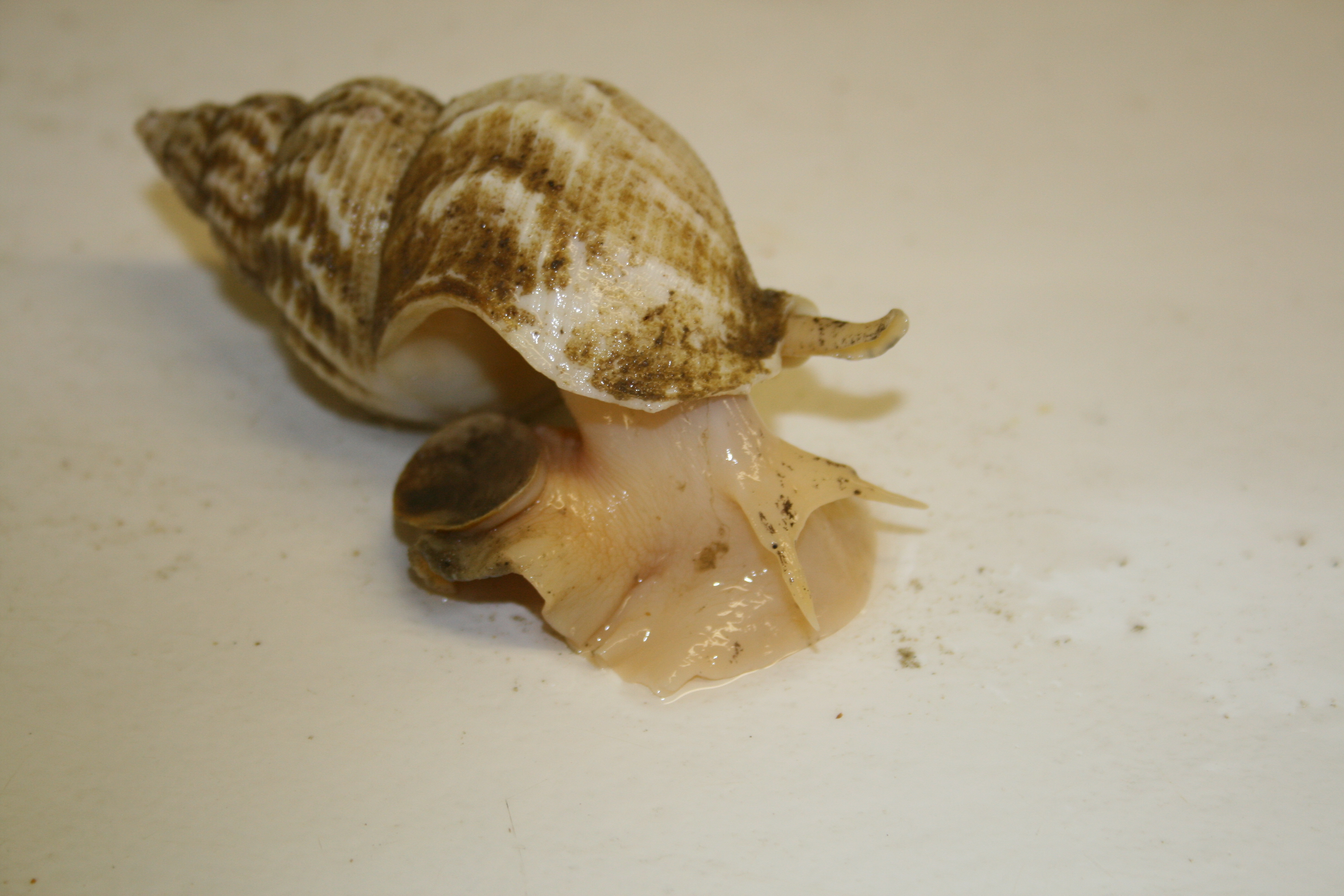 common whelk (Buccinum undatum)